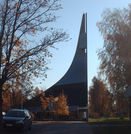 Lauritsala Church in Lappeenranta, Finland. Completed in 1969. Architects: Toivo Korhonen and Jaakko Laapotti.